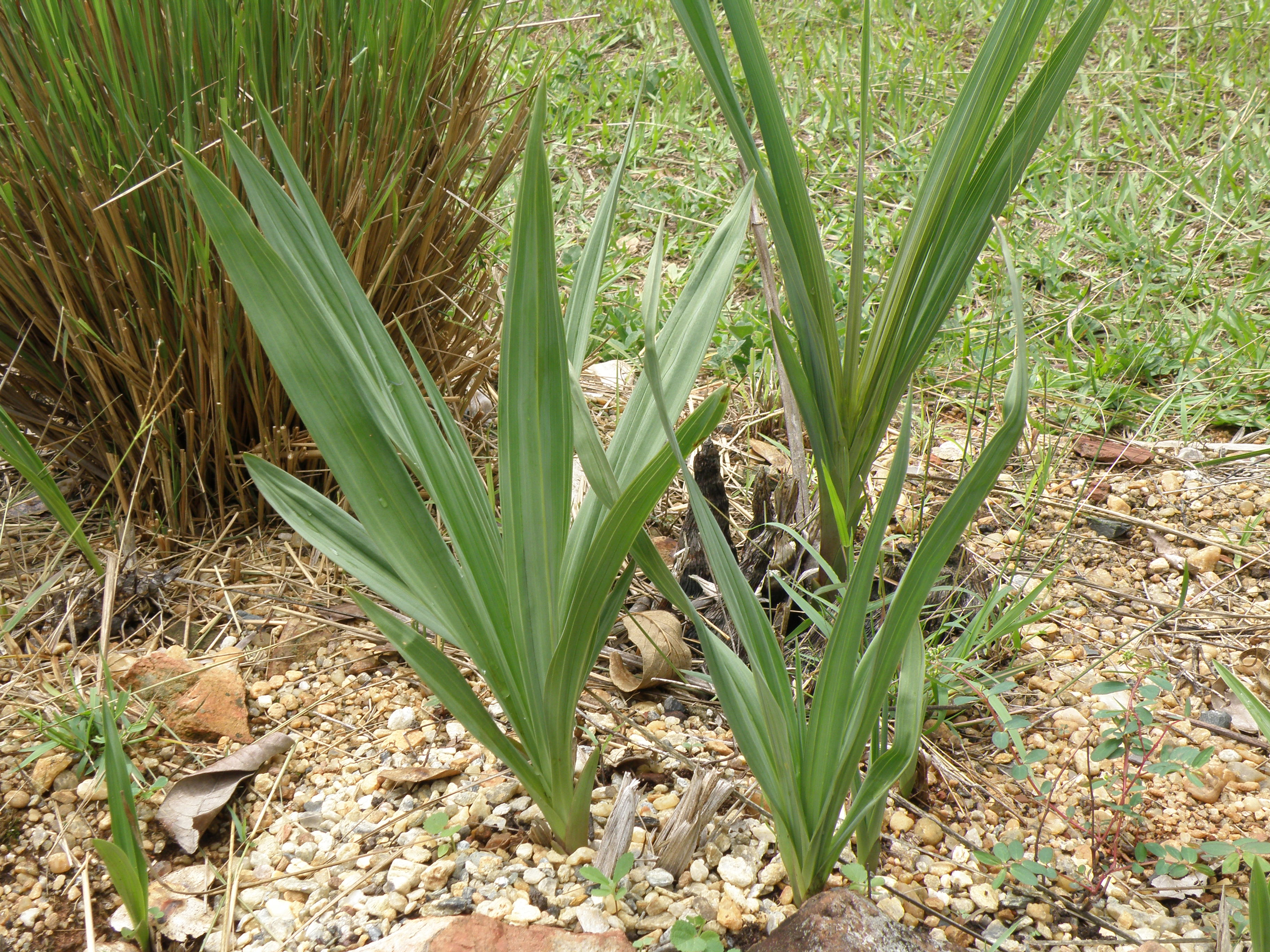 Cyrtopodium witeckii